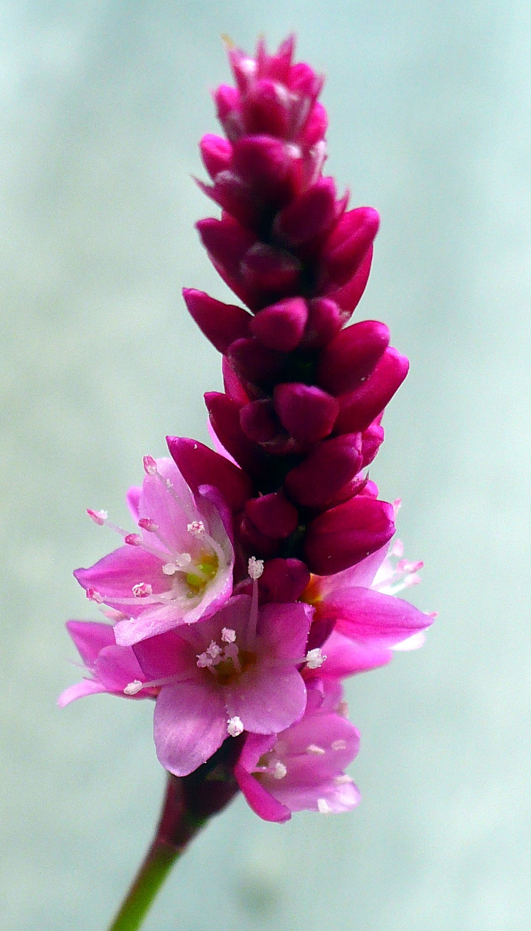 Flower of Persicaria orientalis